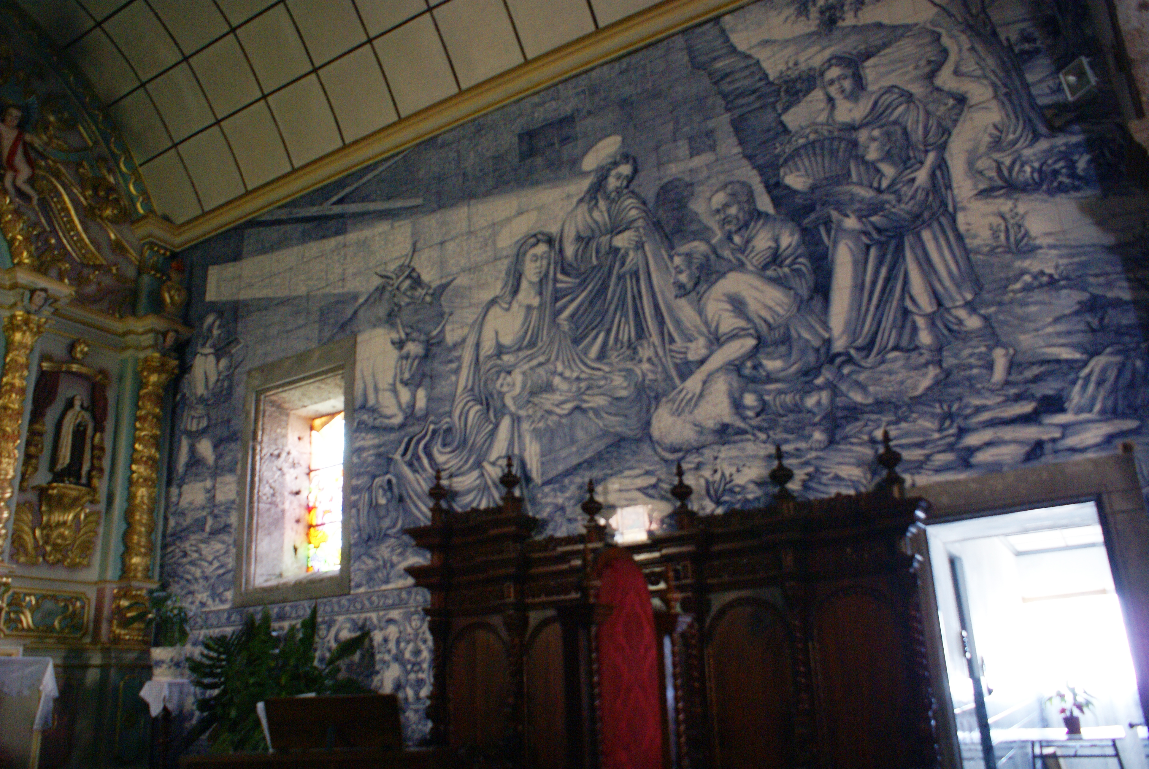 Azulejos on the wall of the Church of Nossa Senhora das Neves, Norte Grande, Velas, São Jorge (Azores), Portugal